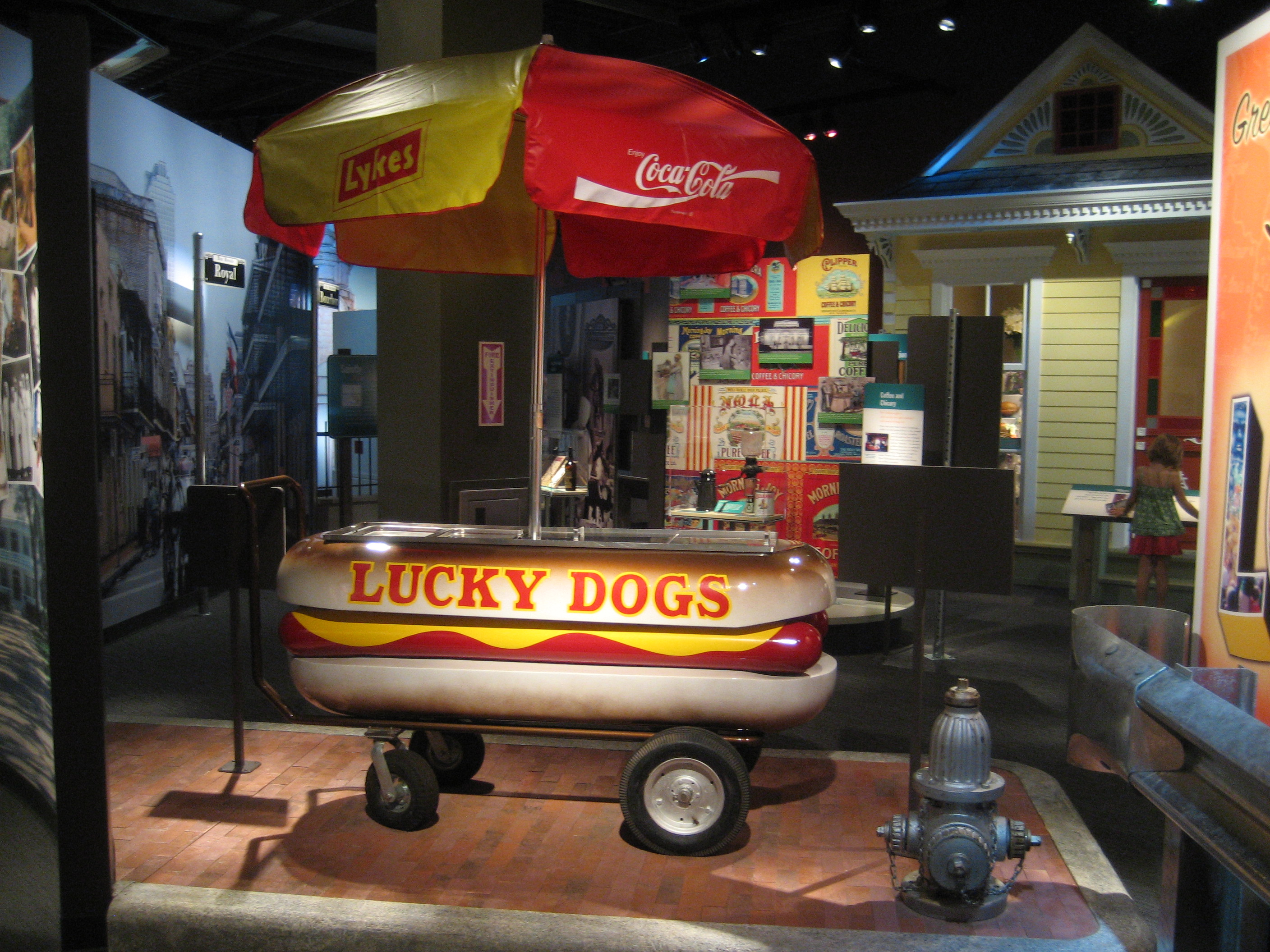 Louisiana State Museum, Baton Rouge, Louisiana. "Lucky Dog" wagon of the obsolete style, built c. 1950.